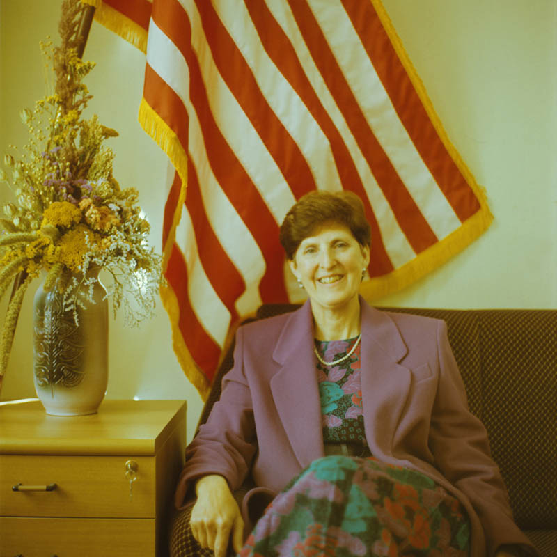 Mary Pendleton first U.S. ambassador to Chisinau.